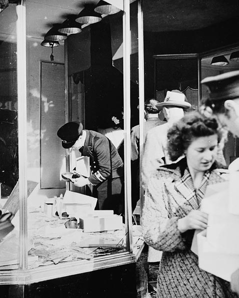 Title / Titre : Looted shoe store on the east side of Barrington Street between Salter and Prince Streets, V-E Day Riots Creator(s) / Créateur(s) : Petty Officer Harvey Date(s) : May 8, 1945 / 8 mai 1945 Reference No. / Numéro de référence : MIKAN 3193213, 3624100 Location / Lieu : Halifax, Nova Scotia, Canada / Halifax, Nouvelle-Écosse, Canada Credit / Mention de source : Petty Officer Harvey. Library and Archives Canada, C-079584 / Petty Officer Harvey. Bibliothèque et Archives Canada, C-079584